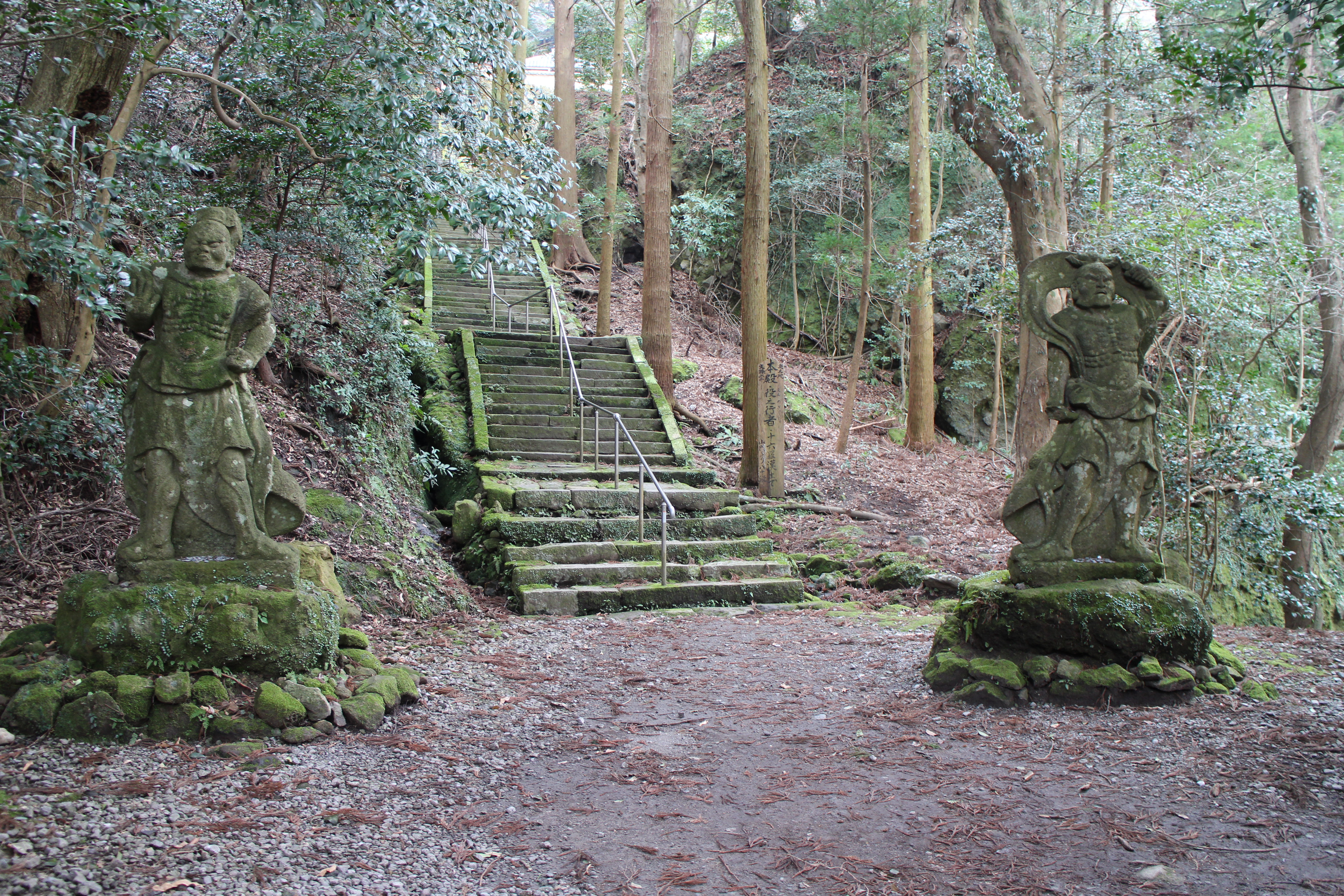 monjusenji-niouzou Na Vosa Vakaviti: 文殊仙寺 仁王像